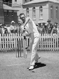 Former Australian cricketer Brian Booth pictured at practice.